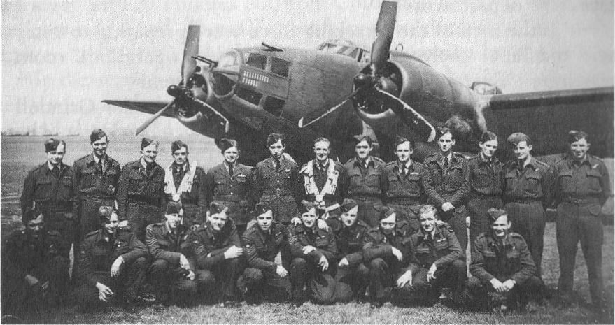 New Zealand non-commissioned aircrew serving with the RAF in No. 487 Squadron RNZAF at Methwold in front of Lockheed Ventura EG-A in early 1943.